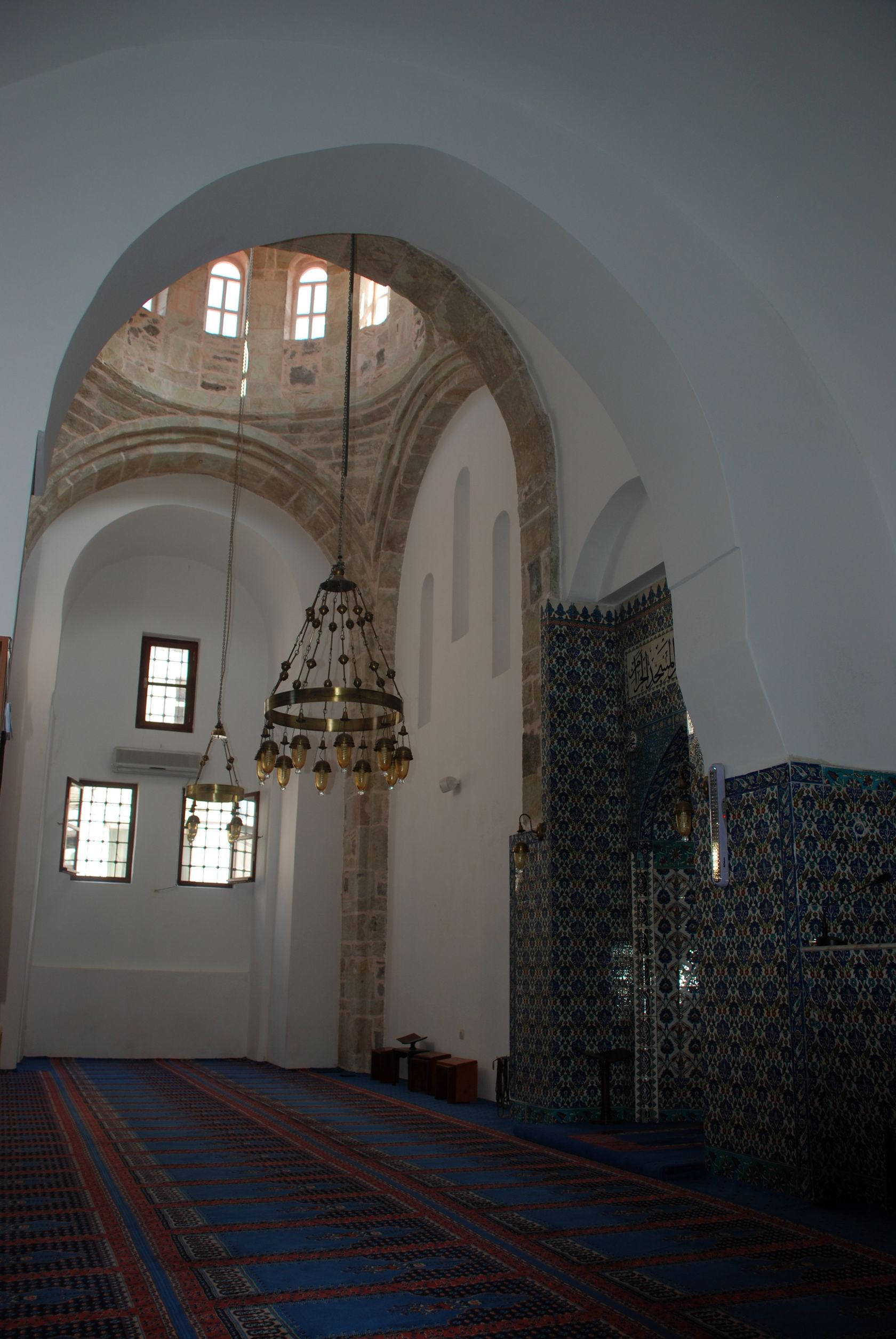 Trabzon, Kudrettin mosque, until 1665 Saint Philip's Cathedral [1]